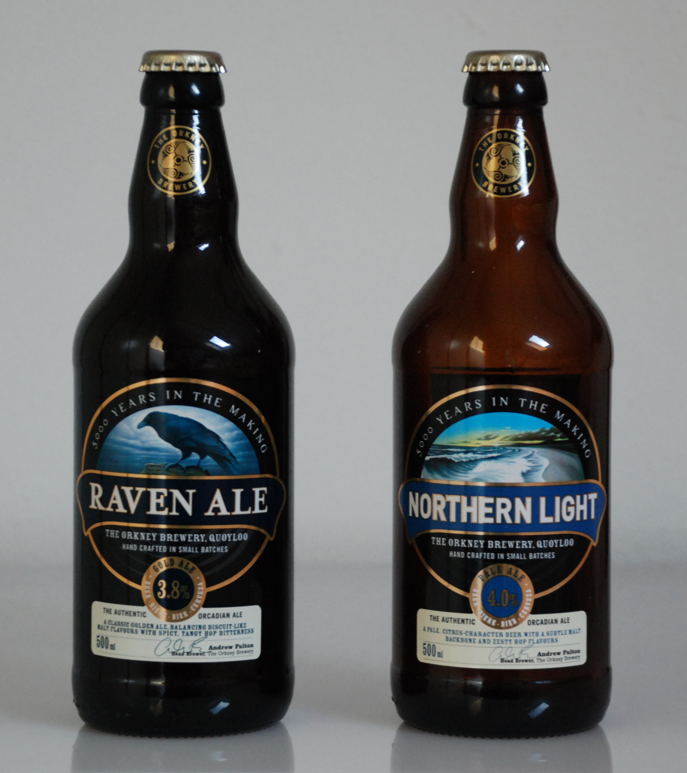 Empty 50cl beer bottles, from left: Raven Ale and Northern Light.